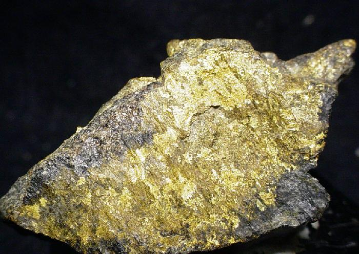 Gold Locality: near Johannesburg, South Africa Size: miniature, 5 x 4 x 2.5 cm Gold This unusual specimen came to me in a collection of interesting South African minerals. I had never seen one offered for sale, and apparently the explanation is that the deposit is jealously guarded by both mining interests and the state, and exports are generally forbidden. The piece is a very rich specimen with grains of gold richly dispersed throughout a very strange matrix of lightweight, carbon-rich rock. I've not seen a gold matrix like this, ever, and I am honestly not sure what rock this is...though it at least is pretty. 5 x 4 x 2.5 cm